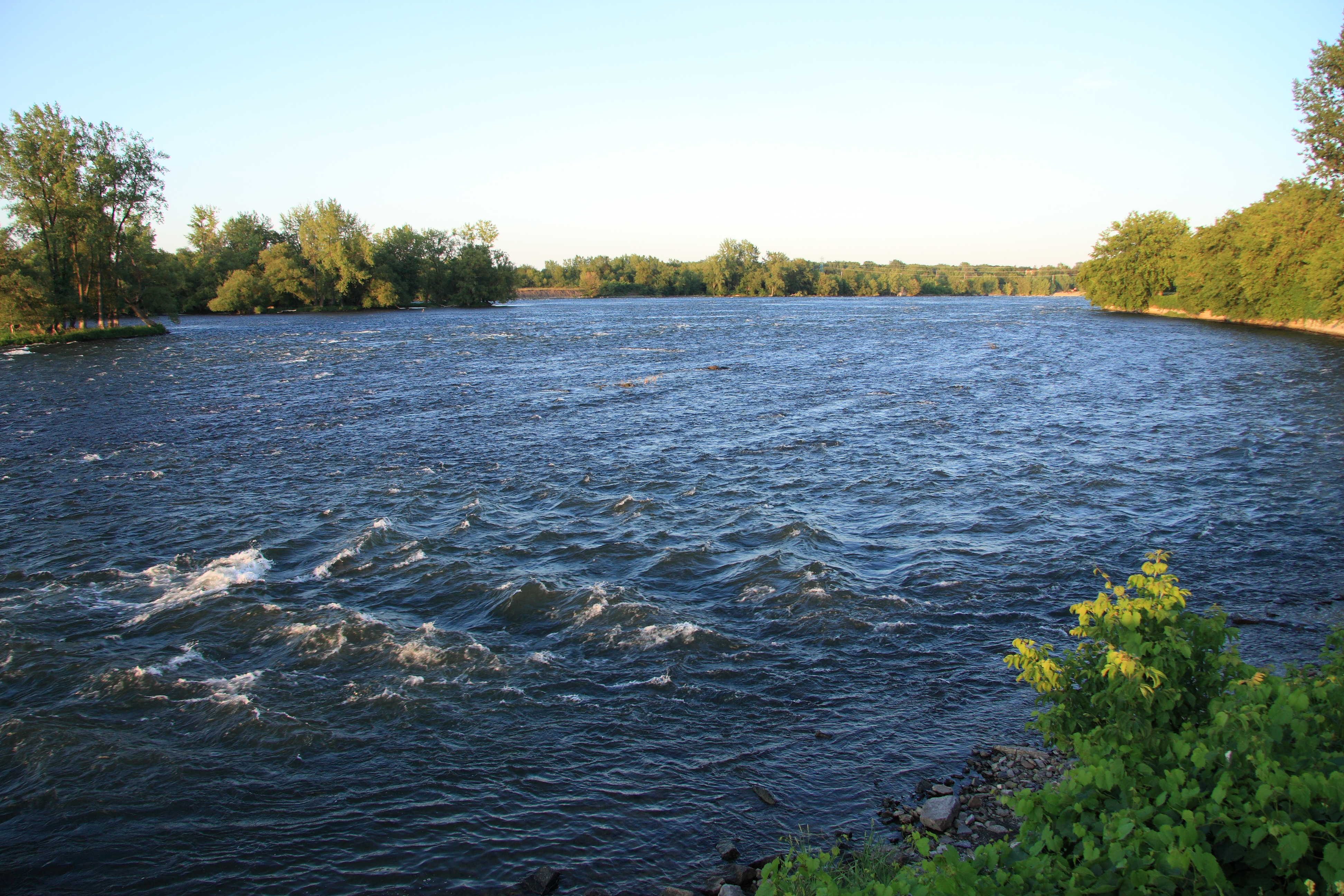 Spawning area for Copper Redhorse on Richelieu River at Chambly, Quebec.